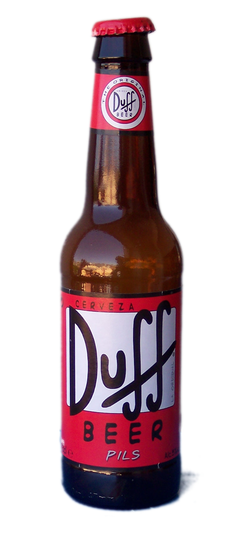 A bottle of Duff beer purchased in Florence, Italy, on may 5, 2009